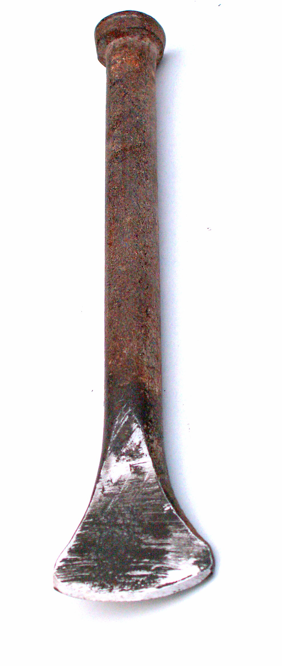 A rounded Stone chisel with mallet head